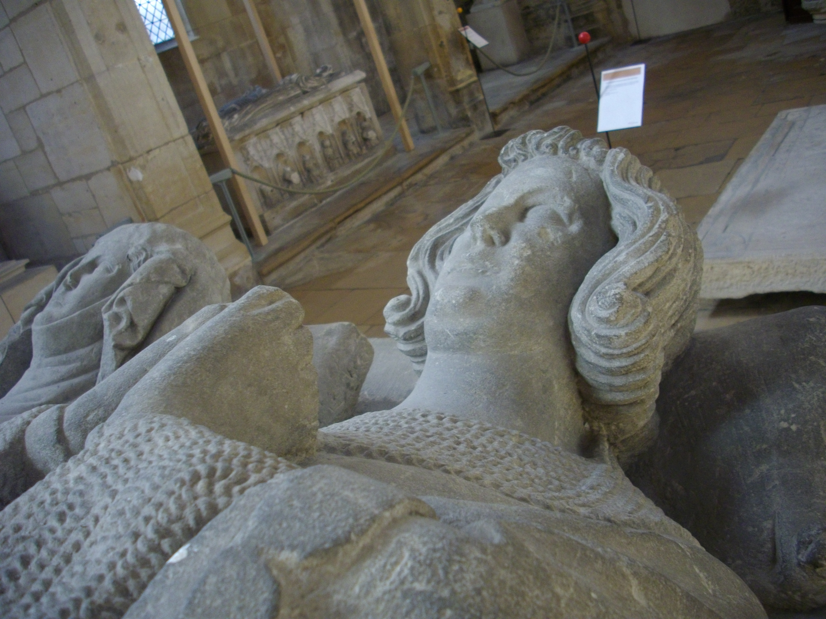 Tomb of Henry of Blâmont (dead around 1331) ans his wife Cunégonde of Linange in Cordeliers' church of Nancy (Meurthe-et-Moselle, France)